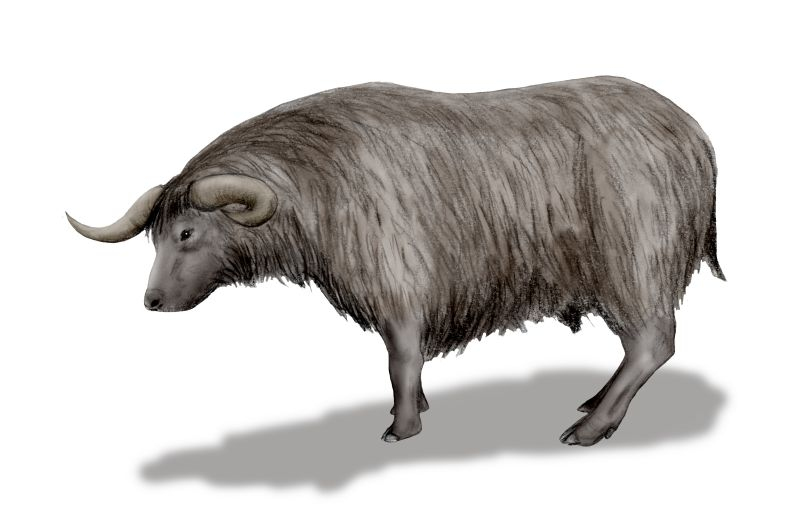 Euceratherium collinum, a musk ox relative from the Pleistocene of North America, pencil drawing, digital coloring